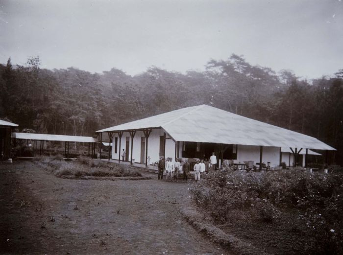 Pasanggrahan Sempol at Bondowoso, Ijen Plateau